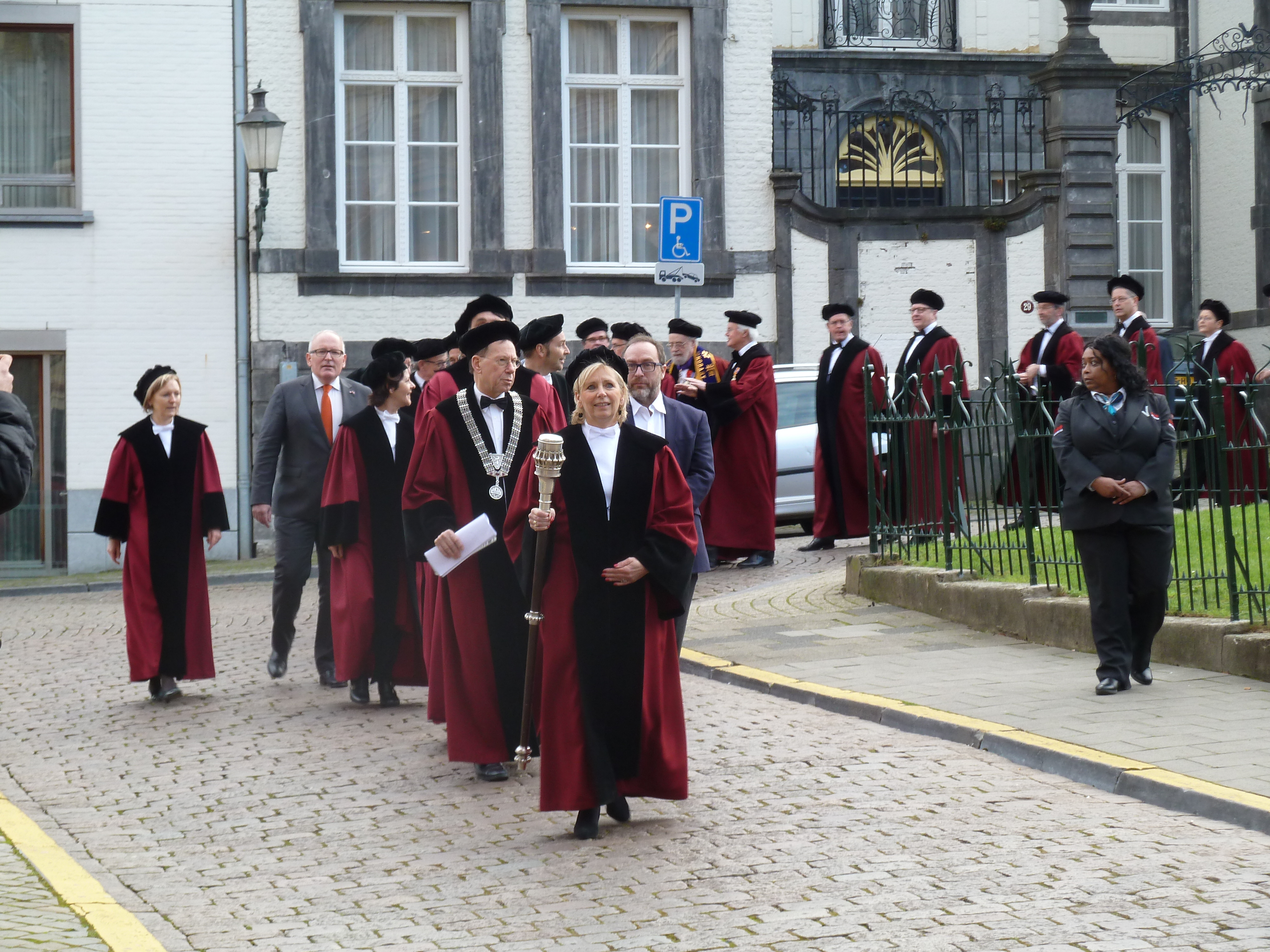 39th Dies Natalis of Maastricht University